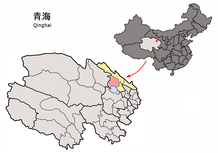 Location of Gangca County (pink) and Haibei Prefecture (yellow) within Qinghai province of China Map drawn in september 2007 using various sources, mainly : Qinghai province administrative regions GIS data: 1:1M, County level, 1990 Qinghai Counties map from "Plateau Perspectives" (the limits of some county-level subdivisions may not be accurate)